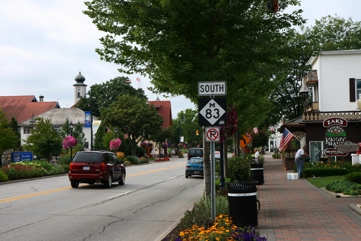 Downtown Frankenmuth, Michigan